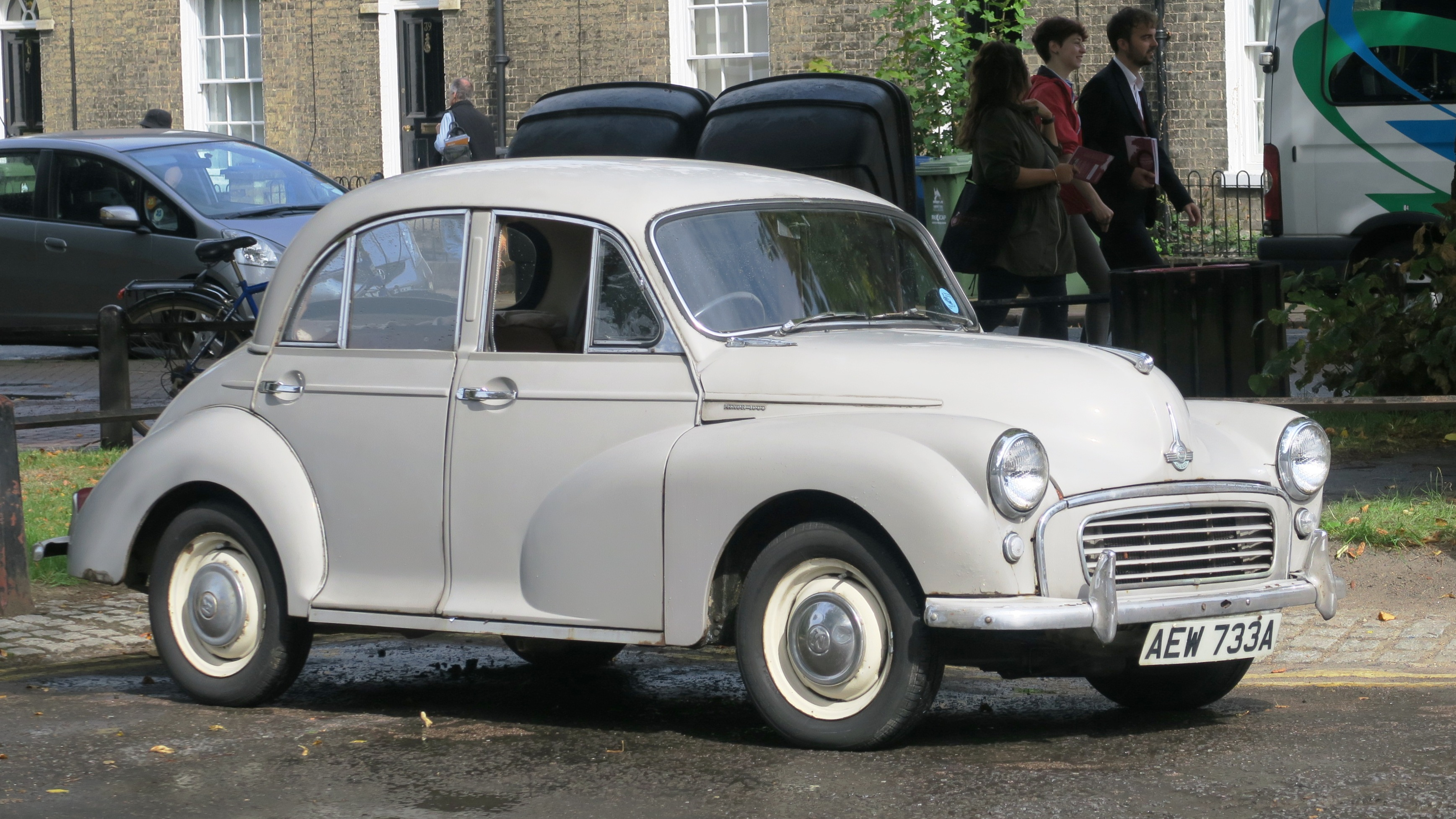 Morris Minor 1000 (1963) in New Square, Cambridge (2018)